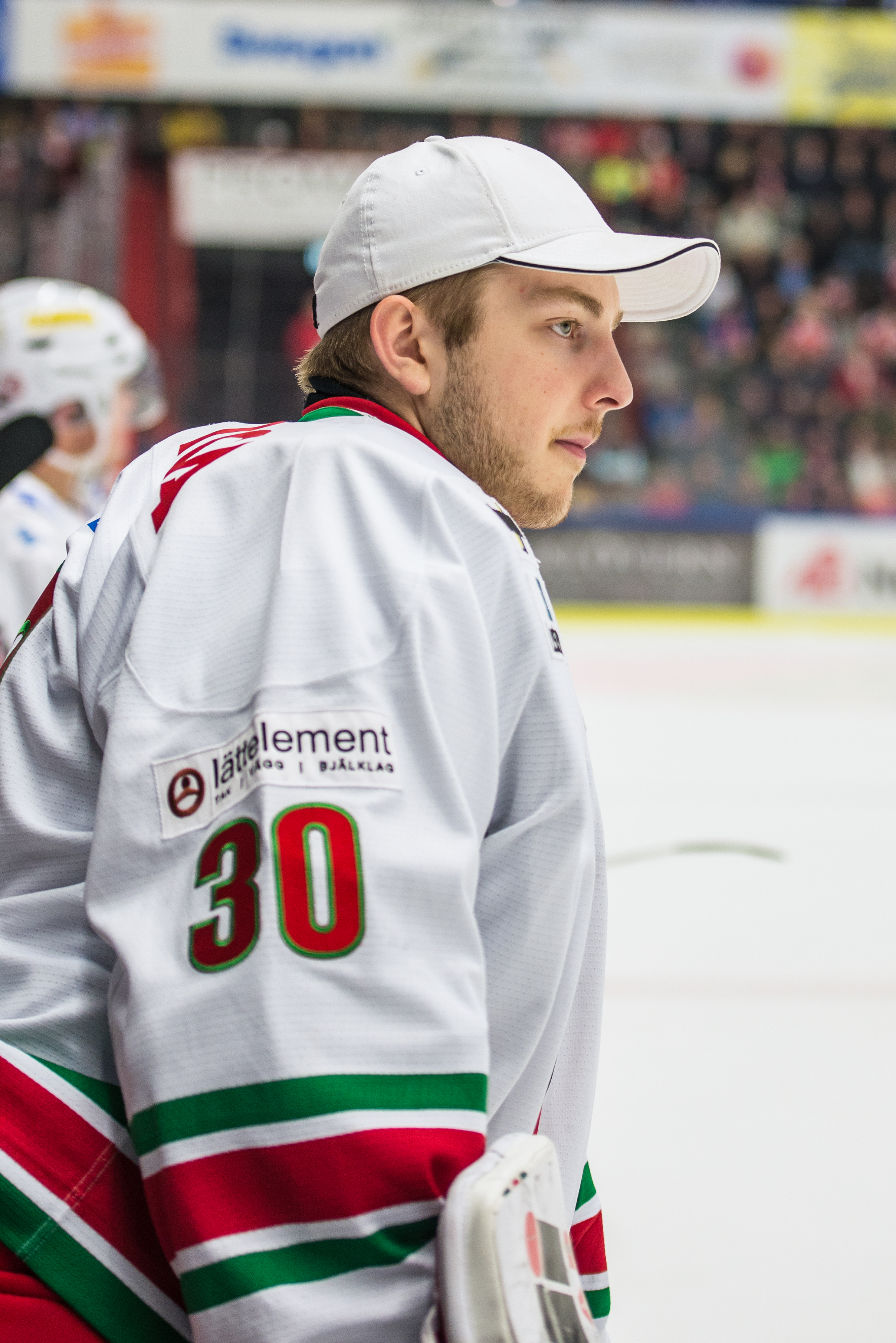 Linus Ullmark playing for MODO Hockey in SHL (Sweden's highest league) against Örebro HK in Behrn Arena 2013-10-05.